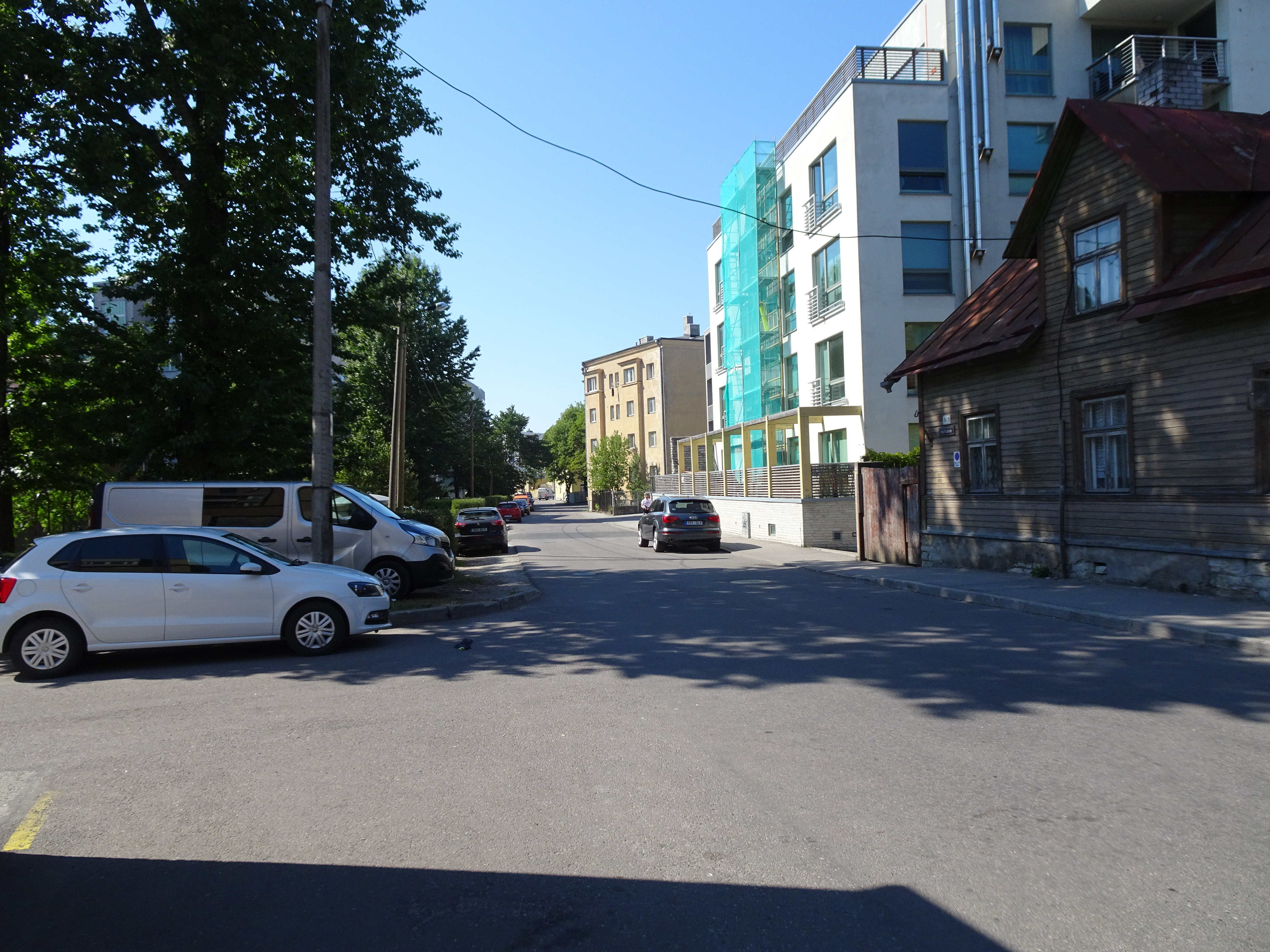 Kollane Street (Kollane tänav) in Tallinn, Estonia